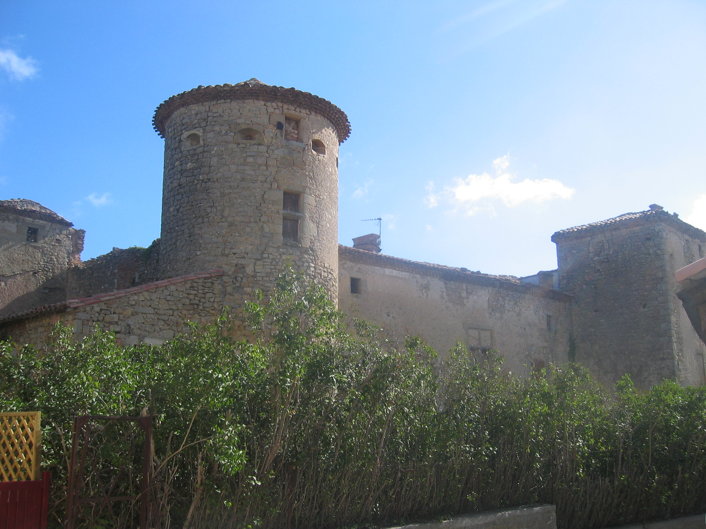 Rennes-le-Chateau, the castle